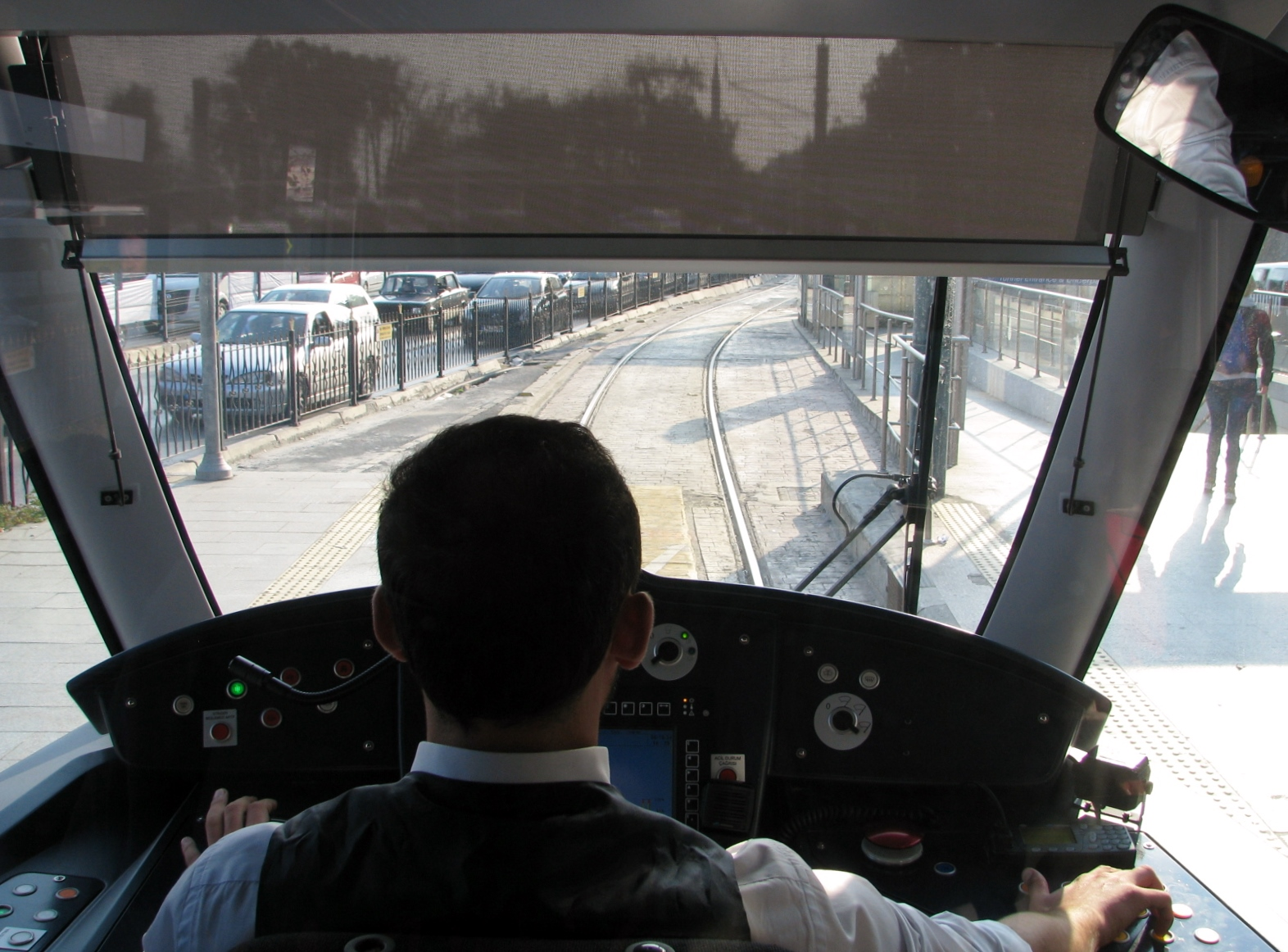 Istanbul Tram Driver in Citadis X-04 type tram at Kabataş